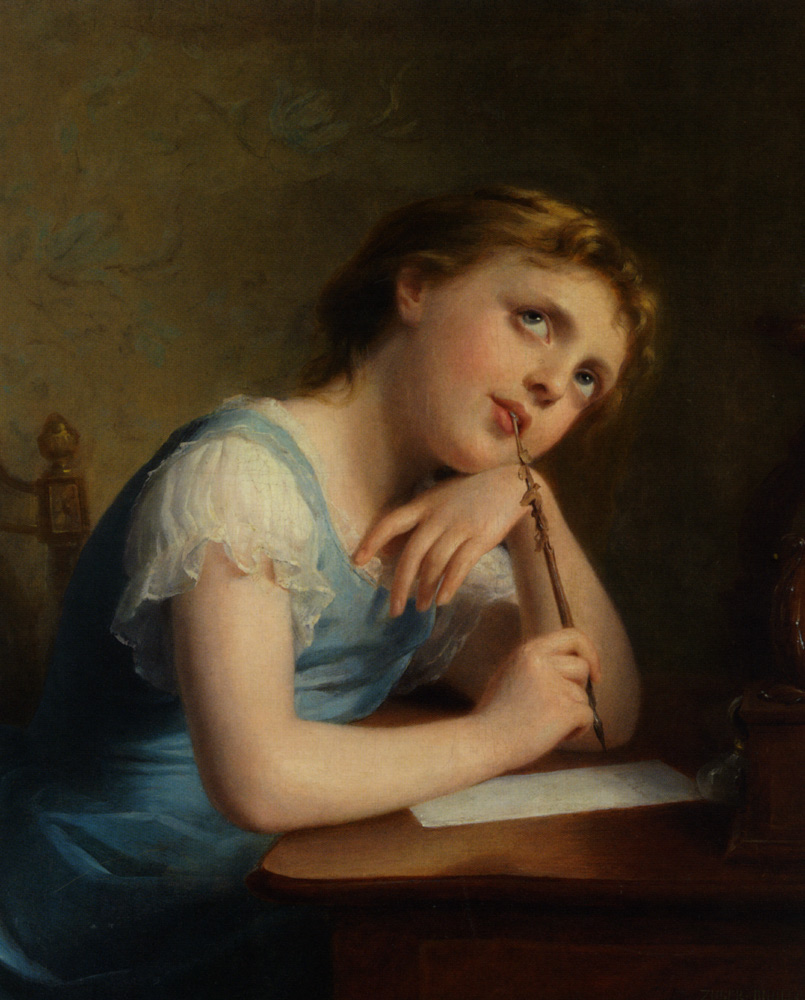 Distant Thoughts, Oil on Canvas